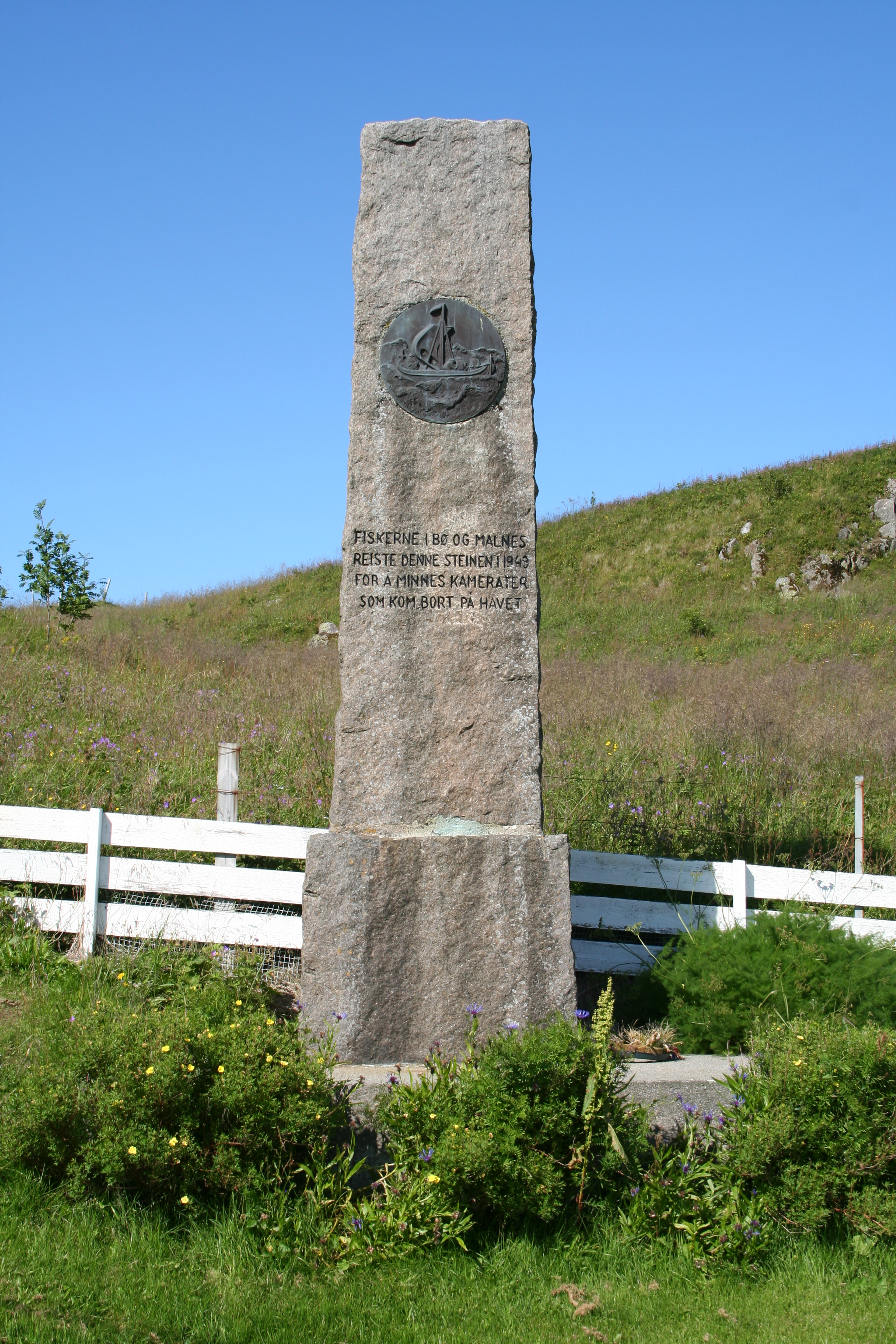 Monument of fishermen lost at sea, near Malnes church, Norway. This picture was taken by me on 29 July 2006.